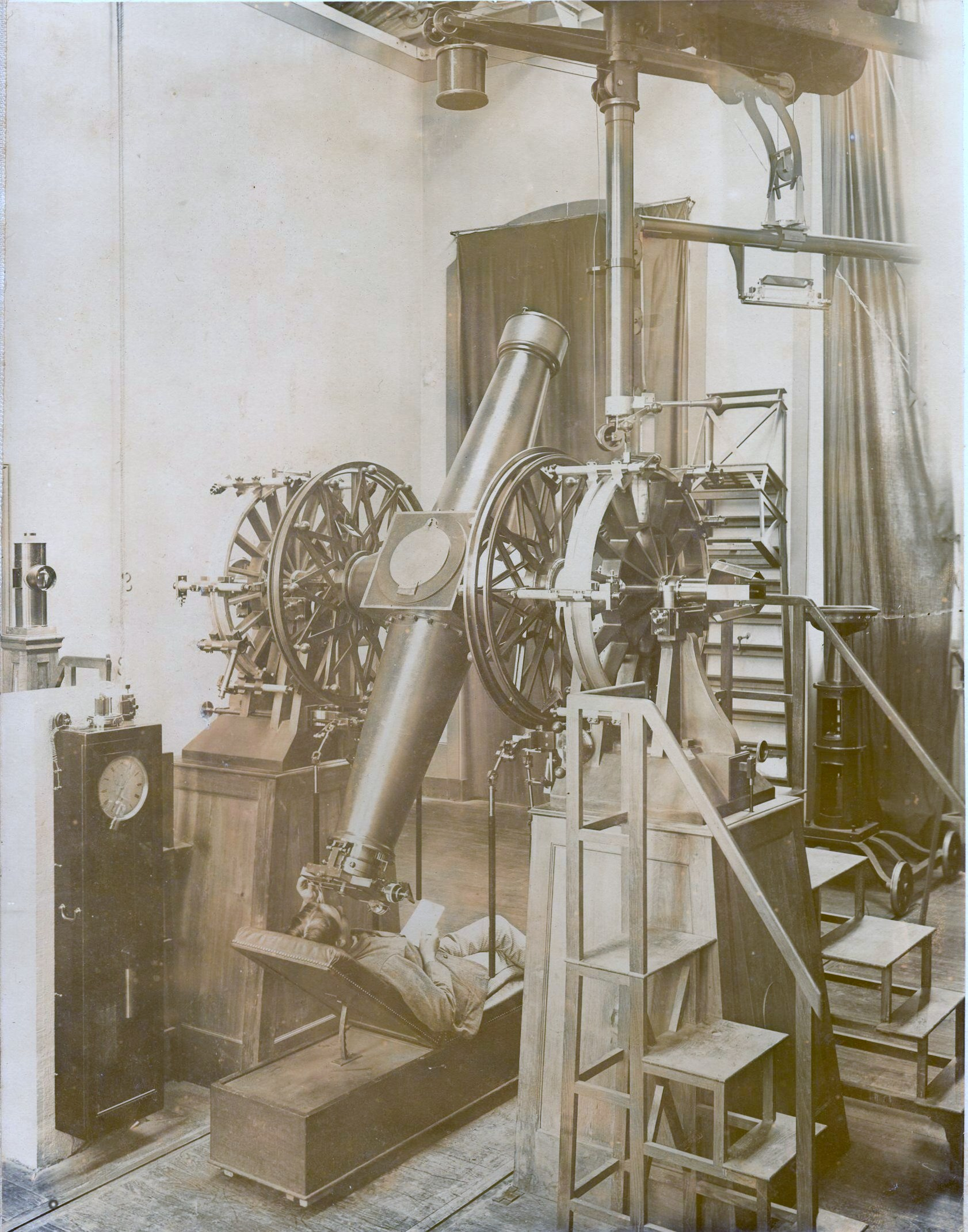 La lunette méridienne de l'observatoire de Besançon (Doubs, France), certainement à la fin du 19e siècle.